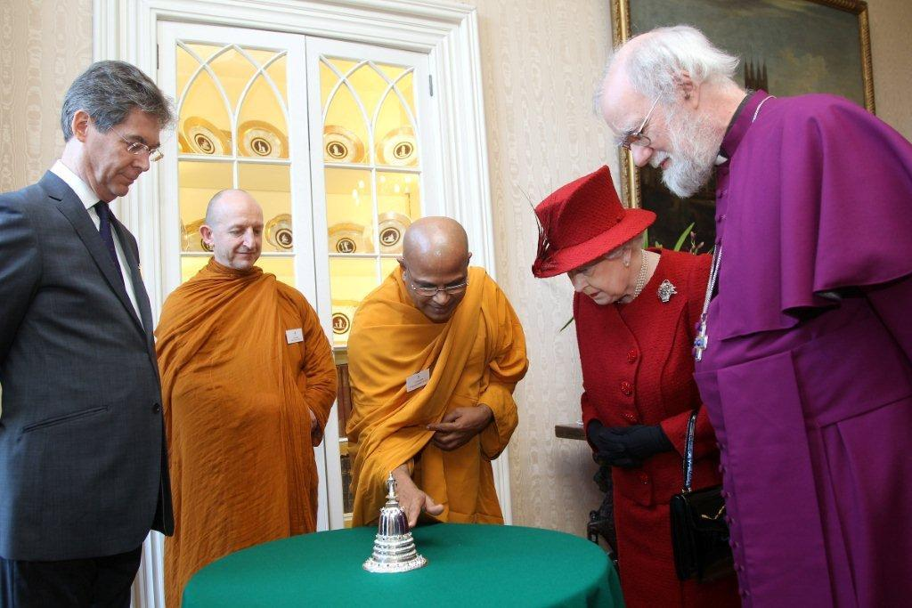 Left to right: Dr Desmond Biddulph, Venerable Ajahn Amaro, and Ven. Bogoda Seelawimala Nayaka present a silver stupa to Queen Elizabeth II in the presence of Archibishop Rowan Williams at Lambeth Palace, 15 February 2012. This photo is solely owned by the Ven. Bogoda Seelawimala Nayaka Thera & have given me the copy rights. If you need any clarification you may contact this address. Name : Anuradha Dullewe Wijeyeratne Address: 168/ 7, Inner Flower Road, Colombo 7, Sri Lanka.